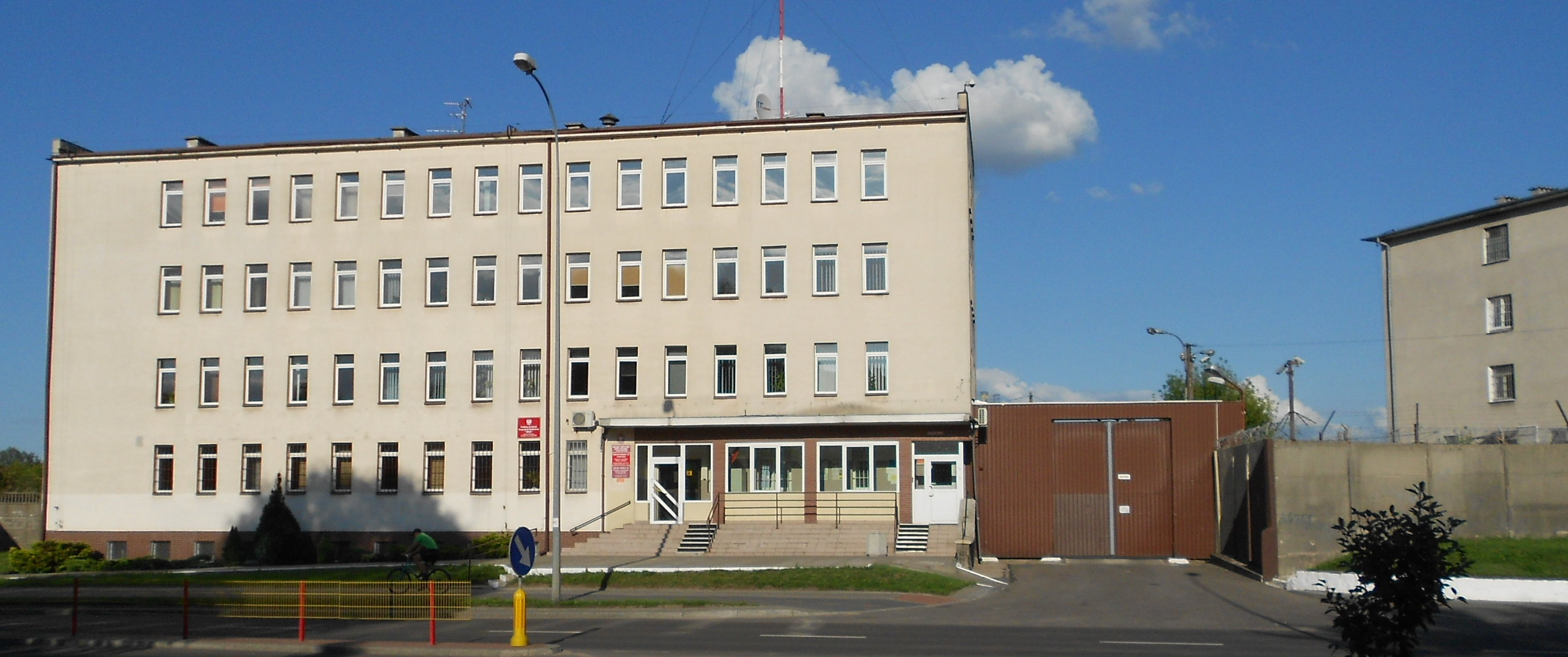 Entrance of Prison in Białystok, Hetmańska 89 street